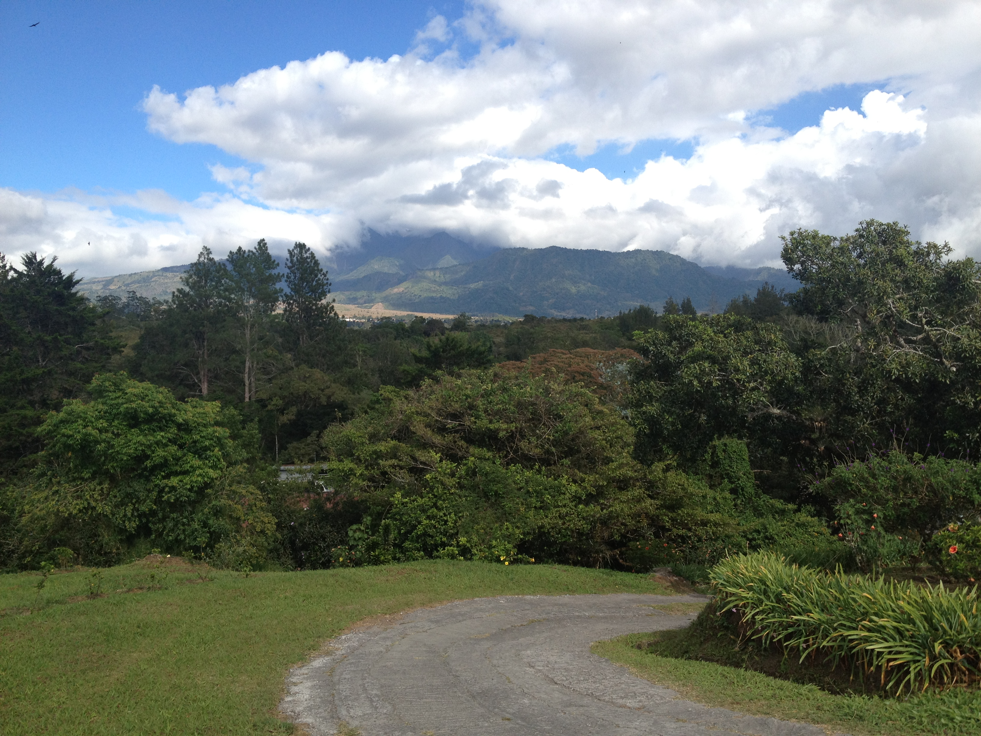 Vista del corregimiento de Volcán